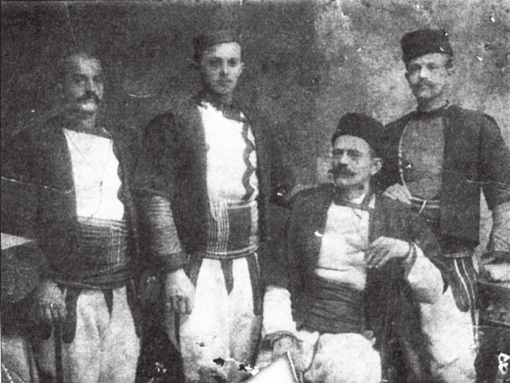 Chuprovski Family Builders in Vidin, 1910